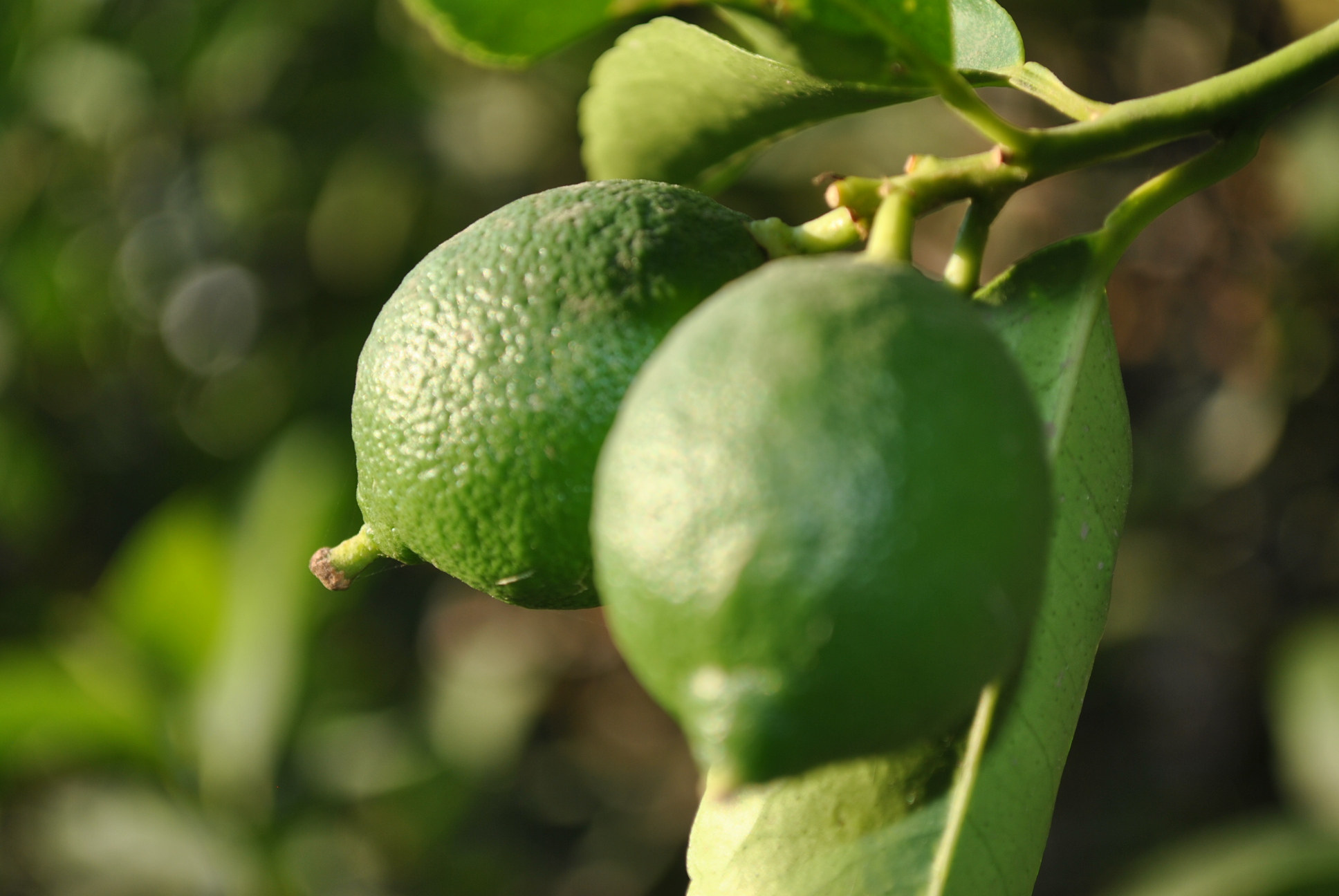 Inmature Citrus x limon fruit.